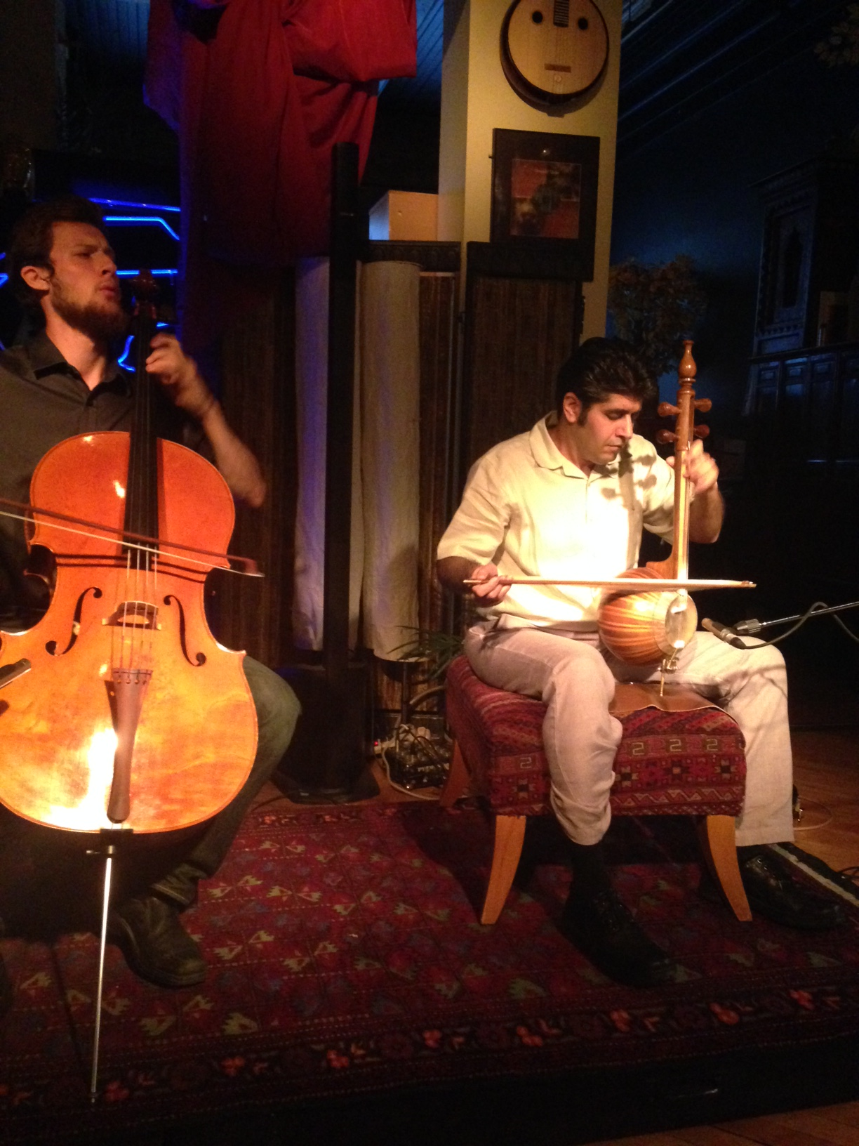 Shahriyar Jamshidi is playing Kamancheh (right). Thanks to Yana Bilyk.